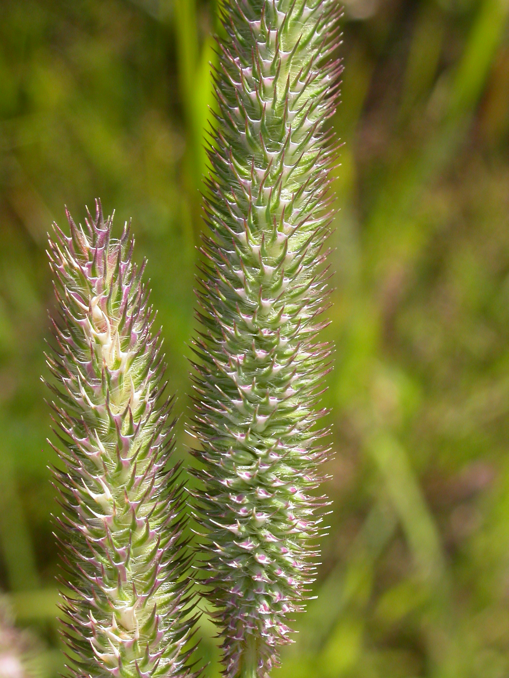 The glumes with ciliate margins and short stout terminal awns render a distinctive morphology of the cylindrical spike.